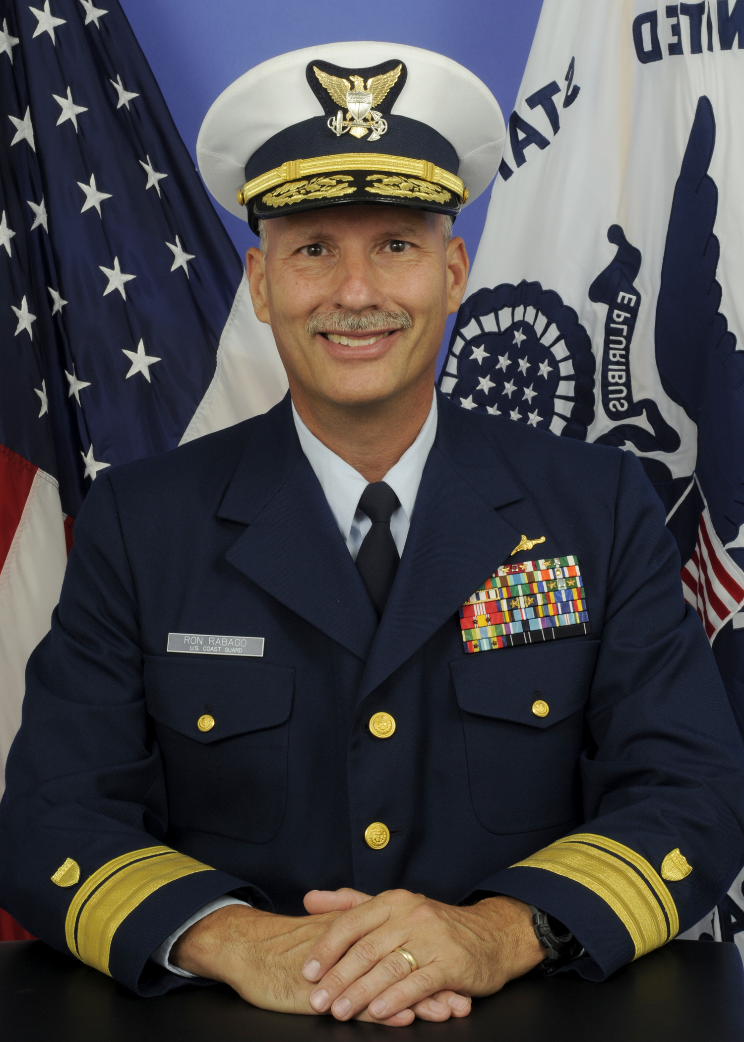 Rear Admiral (RADM) Ronald J. RábagoAssistant Commandant for Acquisition & Chief Acquisition Officer (CAO)United States Coast Guard Acquisition Directorate (CG‐9)